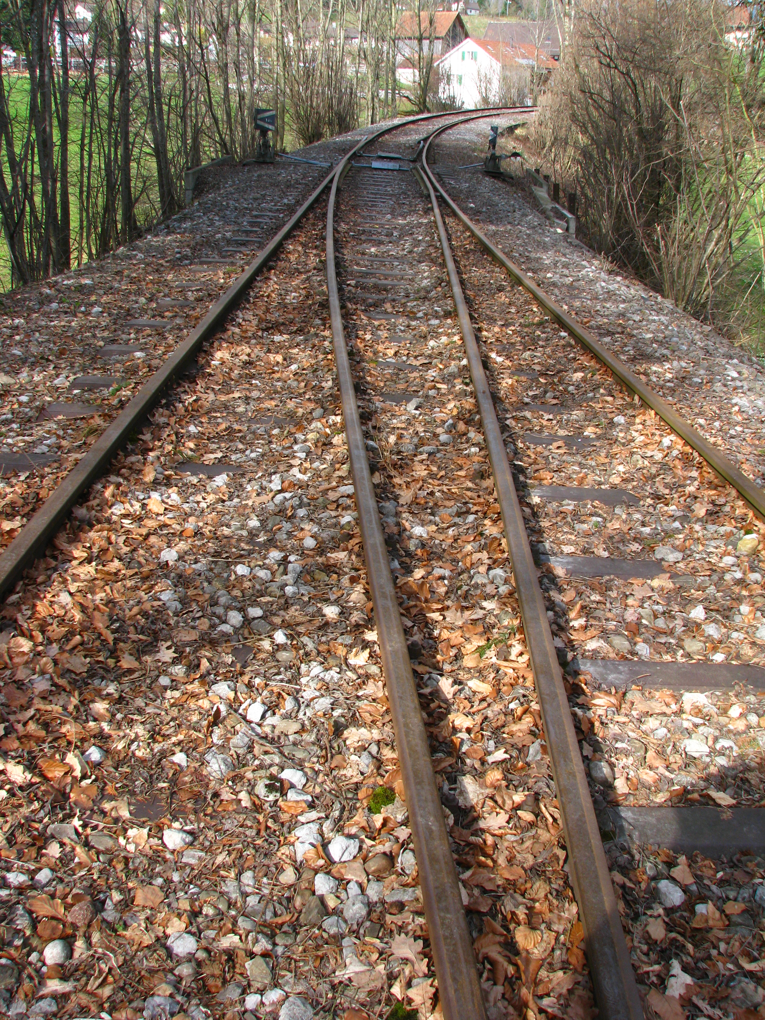 Remains of the Uerikon-Bauma-Bahn in Bubikon (Switzerland)